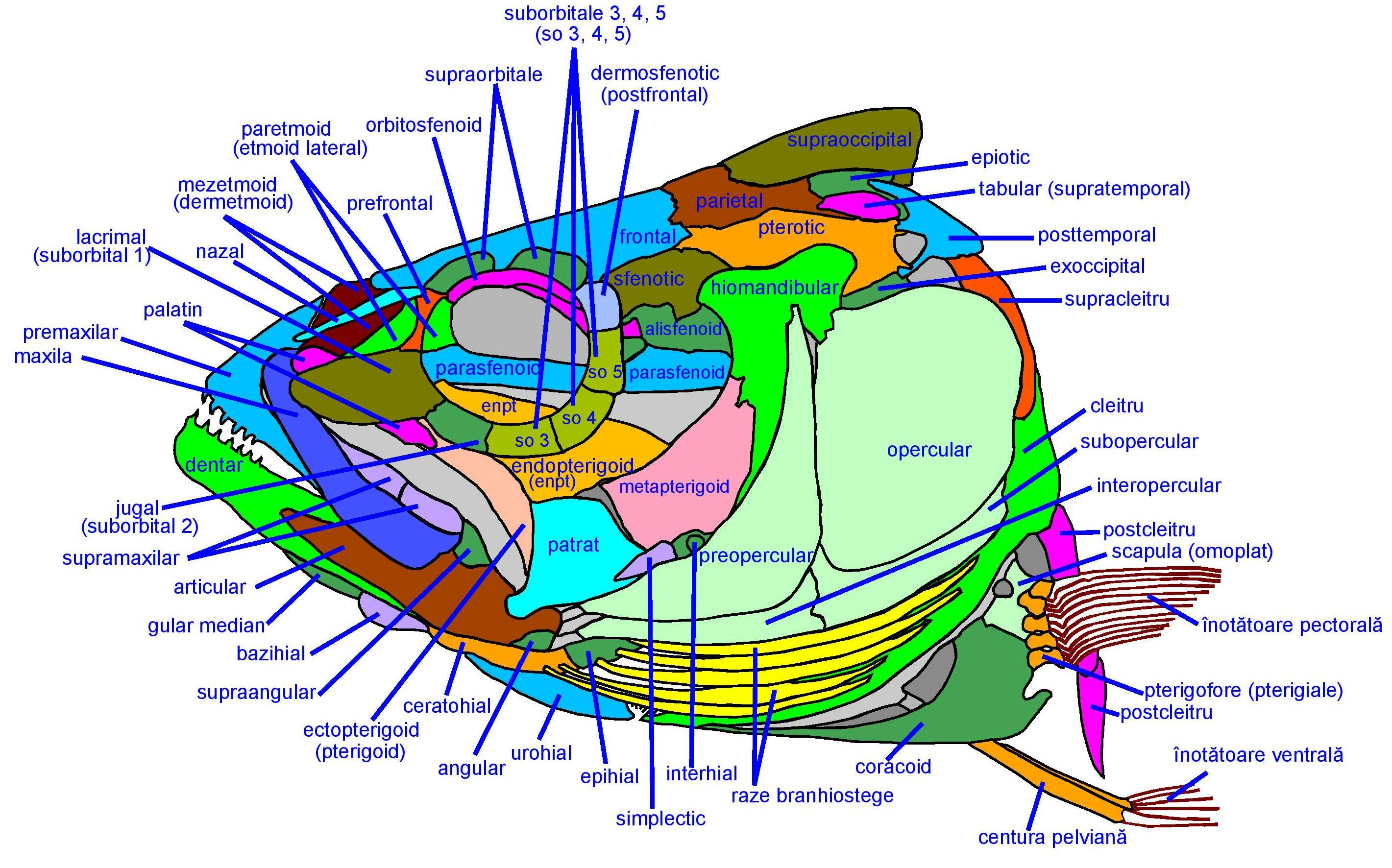 Skull of teleostean fishes